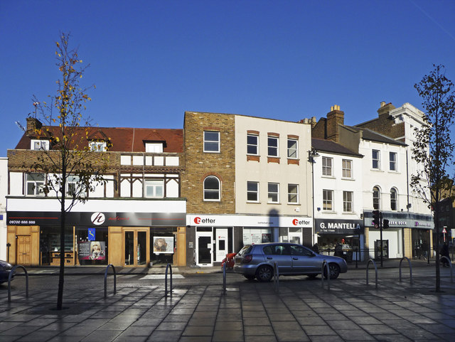 Enfield Town centre, Enfield Looking across the wide pedestrian area in Enfield town centre across Church Street.